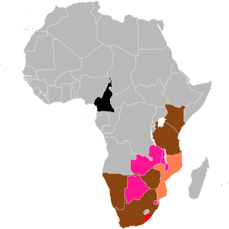 Black Rhinoceros (Diceros bicornis) range (brown - native, pink - reintroduced, red - introduced, orange - possibly extinct)